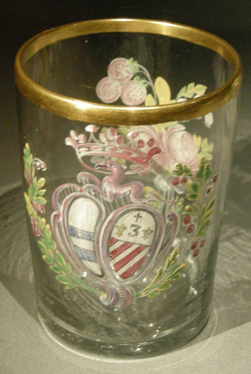 Drinking glass, late 18th century, Murano glass, National Gallery of Victoria, Melbourne, Victoria, Australia